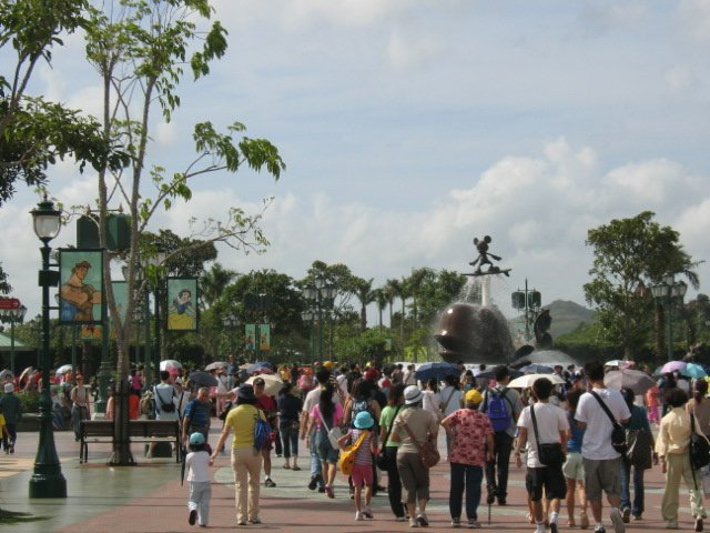 Image is a photo of the Disneyland Resort Station in Hongkong. It is taken by Hui Lok Him (doggie82) and he has the copyright.